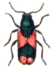 Anthocomus equestris, from Calwer's Käferbuch, Table 27, Picture 23. Taxonomy was updated to 2008, using mostly the sites Fauna Europaea and BioLib. Please contact Sarefo if the determination is wrong!